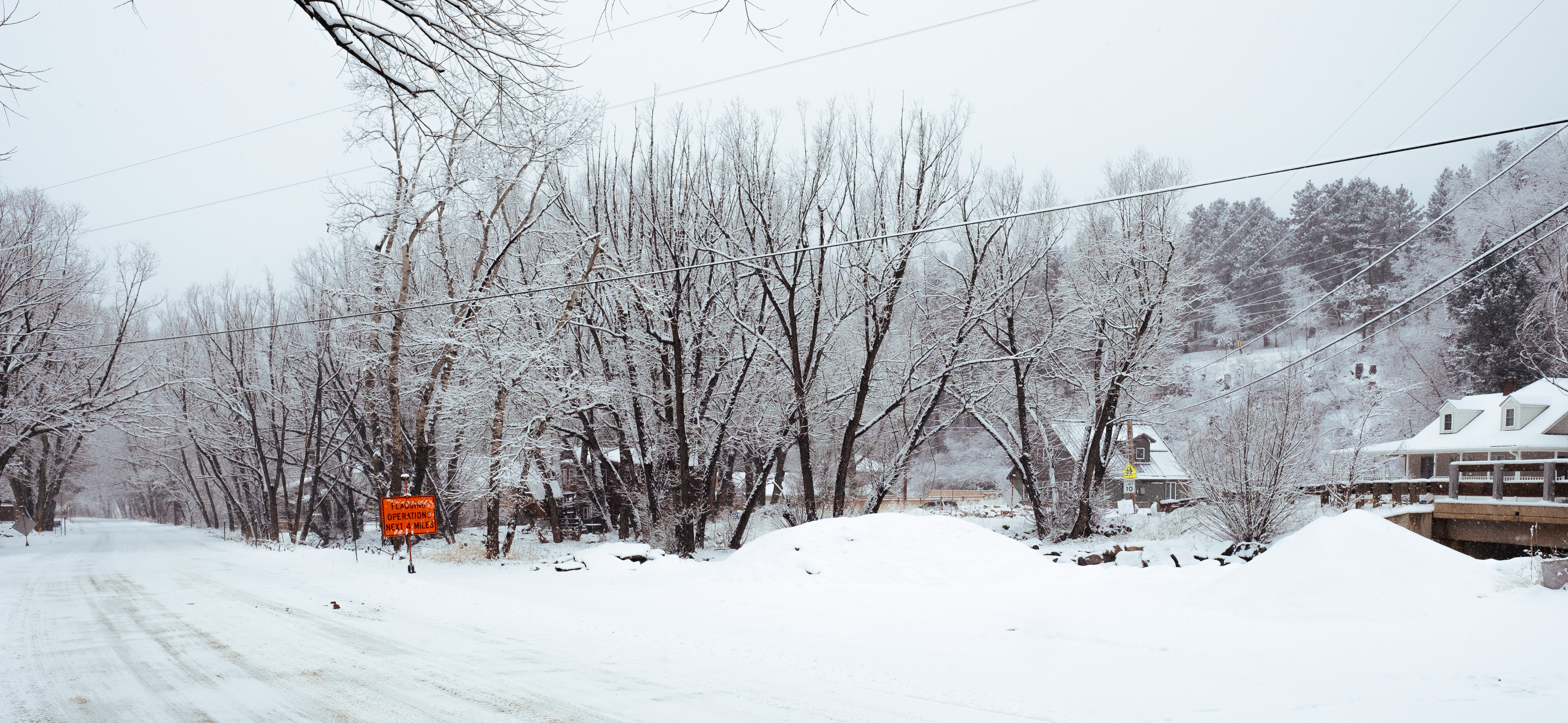 A view from Mill street looking over Little James Creek towards Main Street